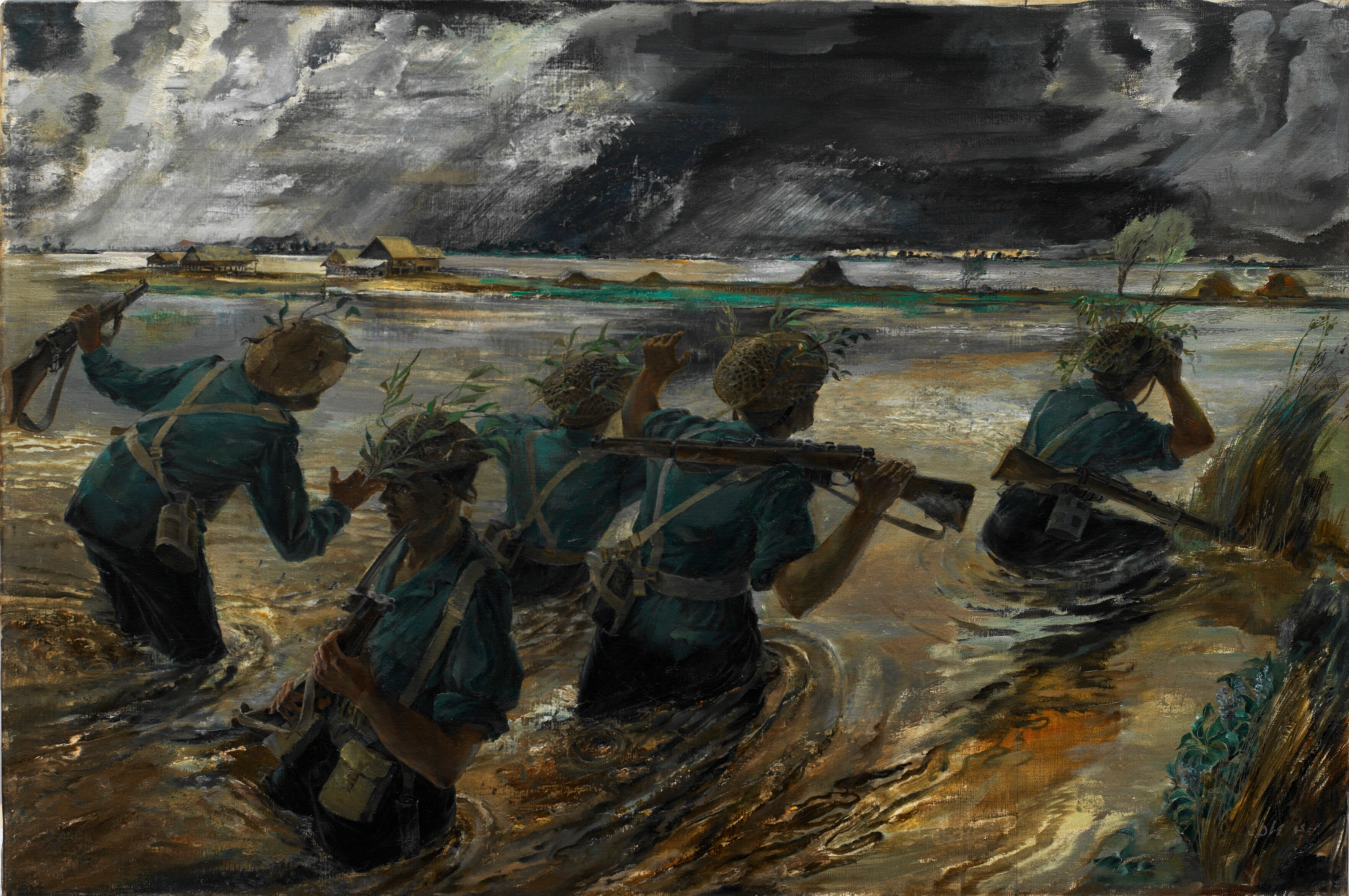 Burma - 14th Army- the Battle of the Sittang Bend. Men of the Queen's Own (royal West Kent) Regiment Making an Armed patrol image: Five soldiers wading through a flooded paddy field